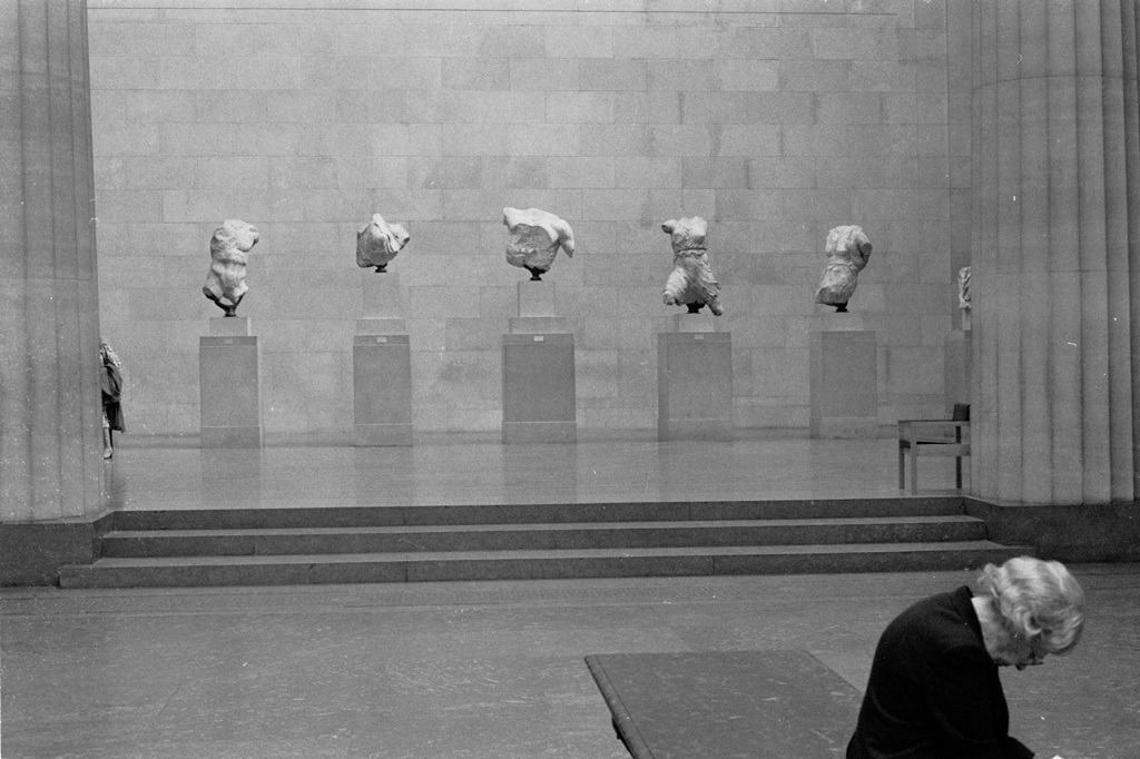 The Duveen Gallery with Parthenon marbles at British Museum, London.